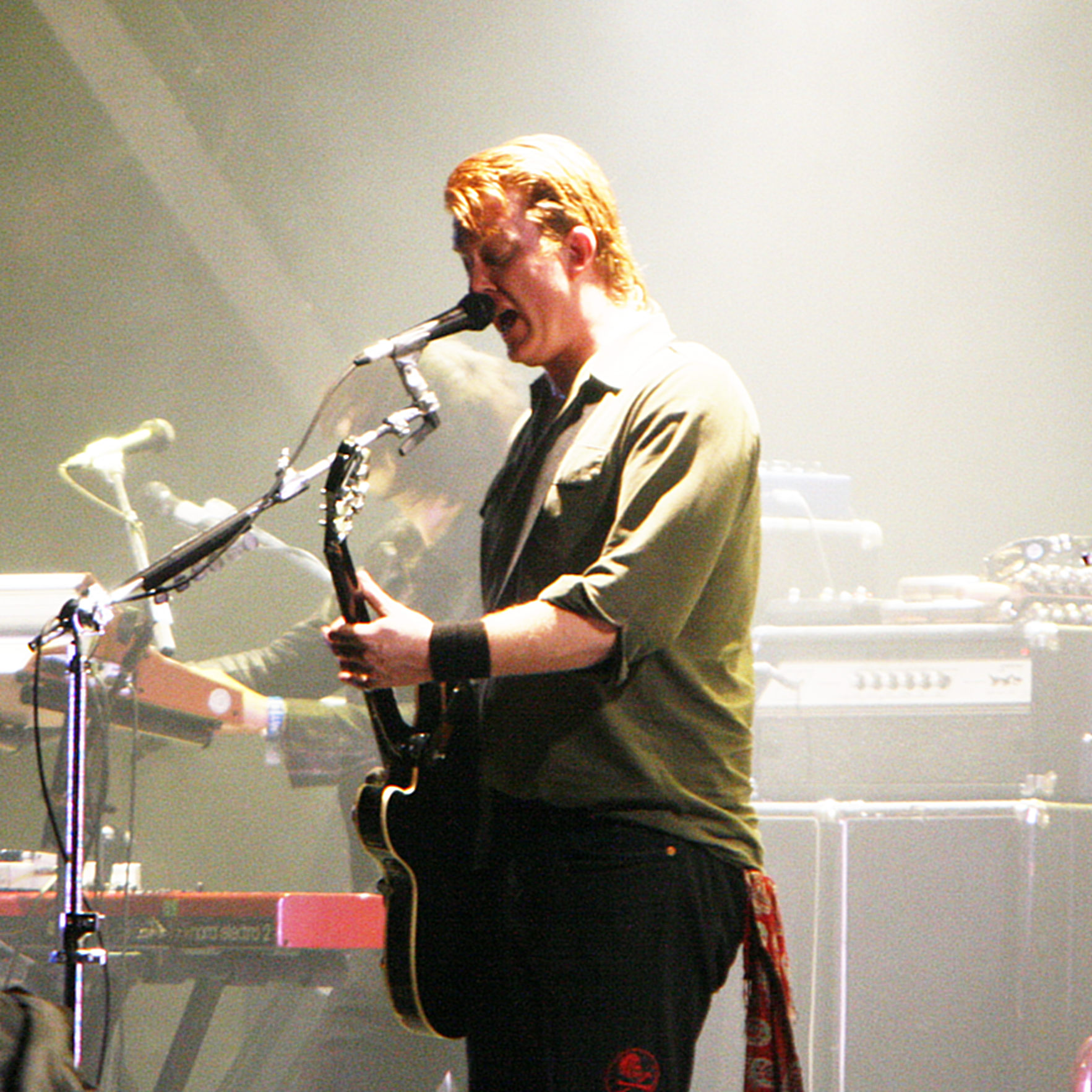 Queens of the Stone Age at the Eurockéennes of 2007